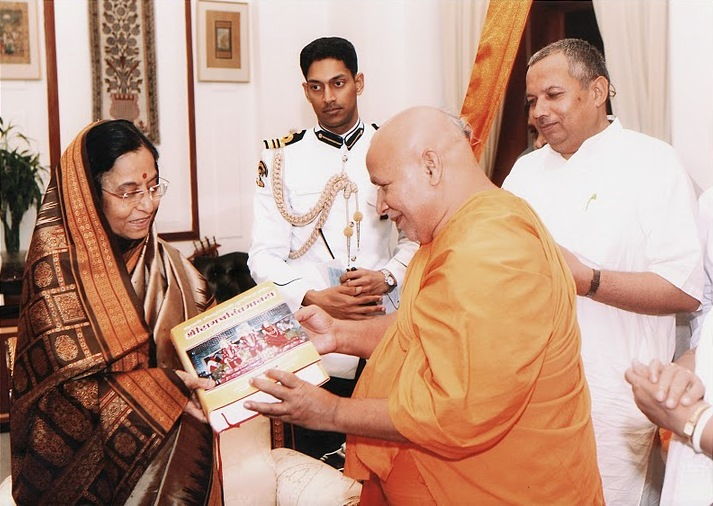 Jagadguru Rambhadracarya presenting the critical edition of Ramacaritamanasa edited by him (with the Bhavarthabodhini) commentary to the President of India, Pratibha Patil